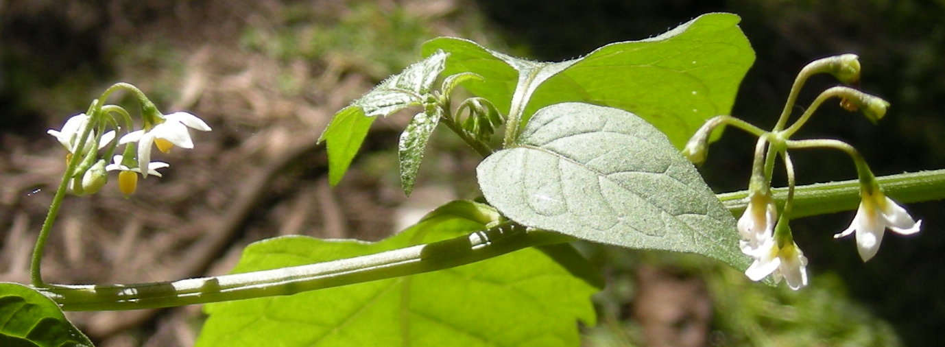 Solanum nigrum flowers, Mount Archer National Park, Rockhampton